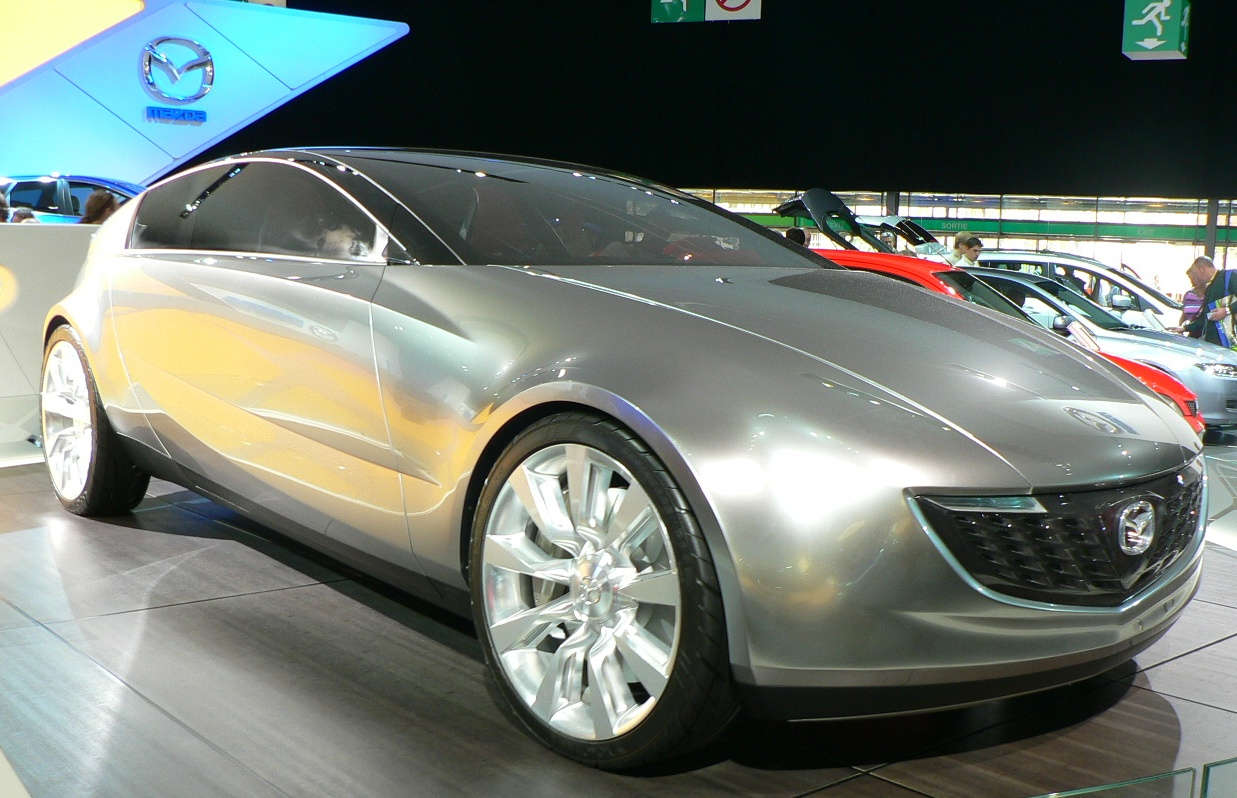 Mazda Senku at the 2006 Paris Motor Show